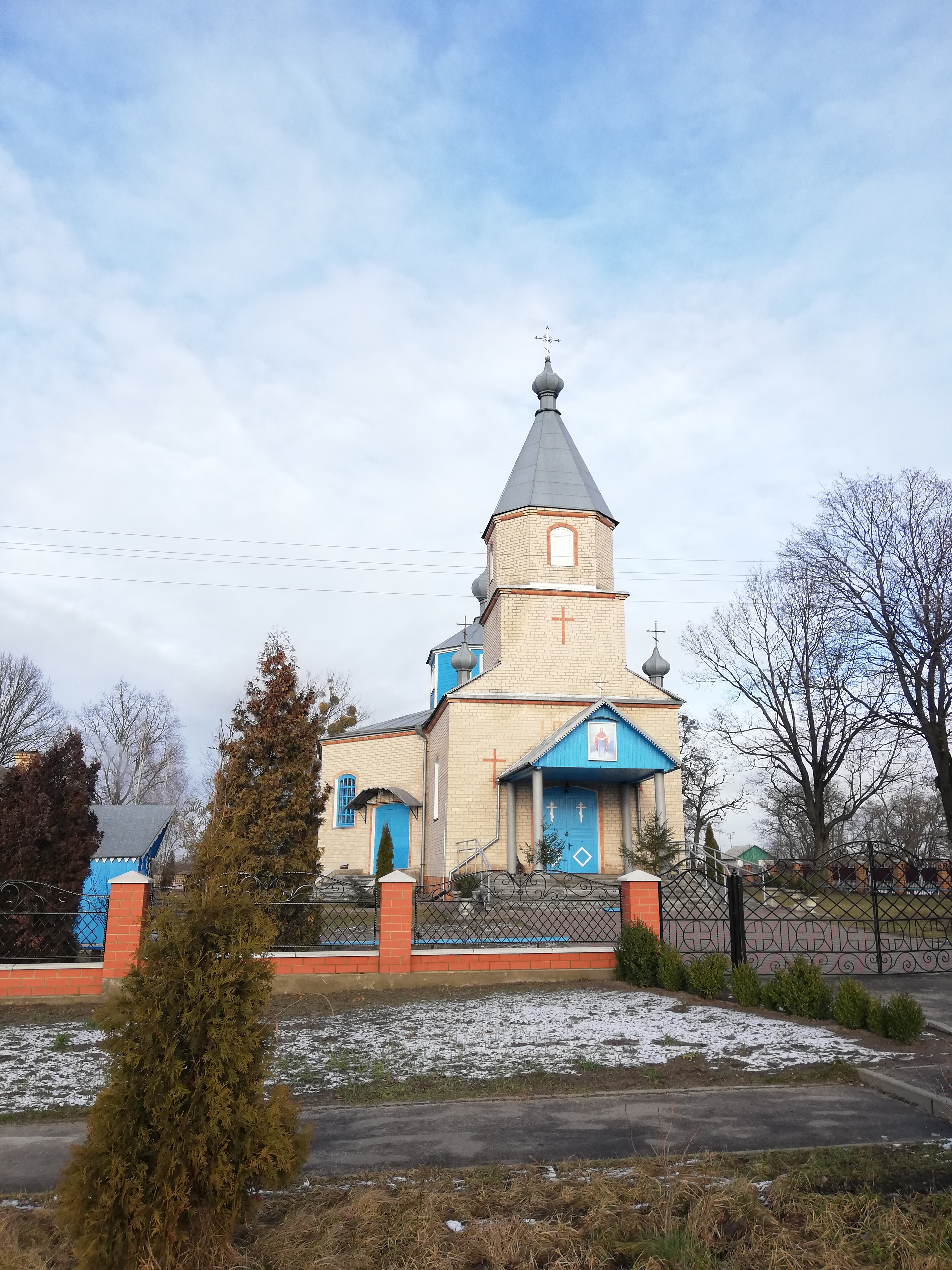 Rečyca, Stolin District. Front view on Intercession church